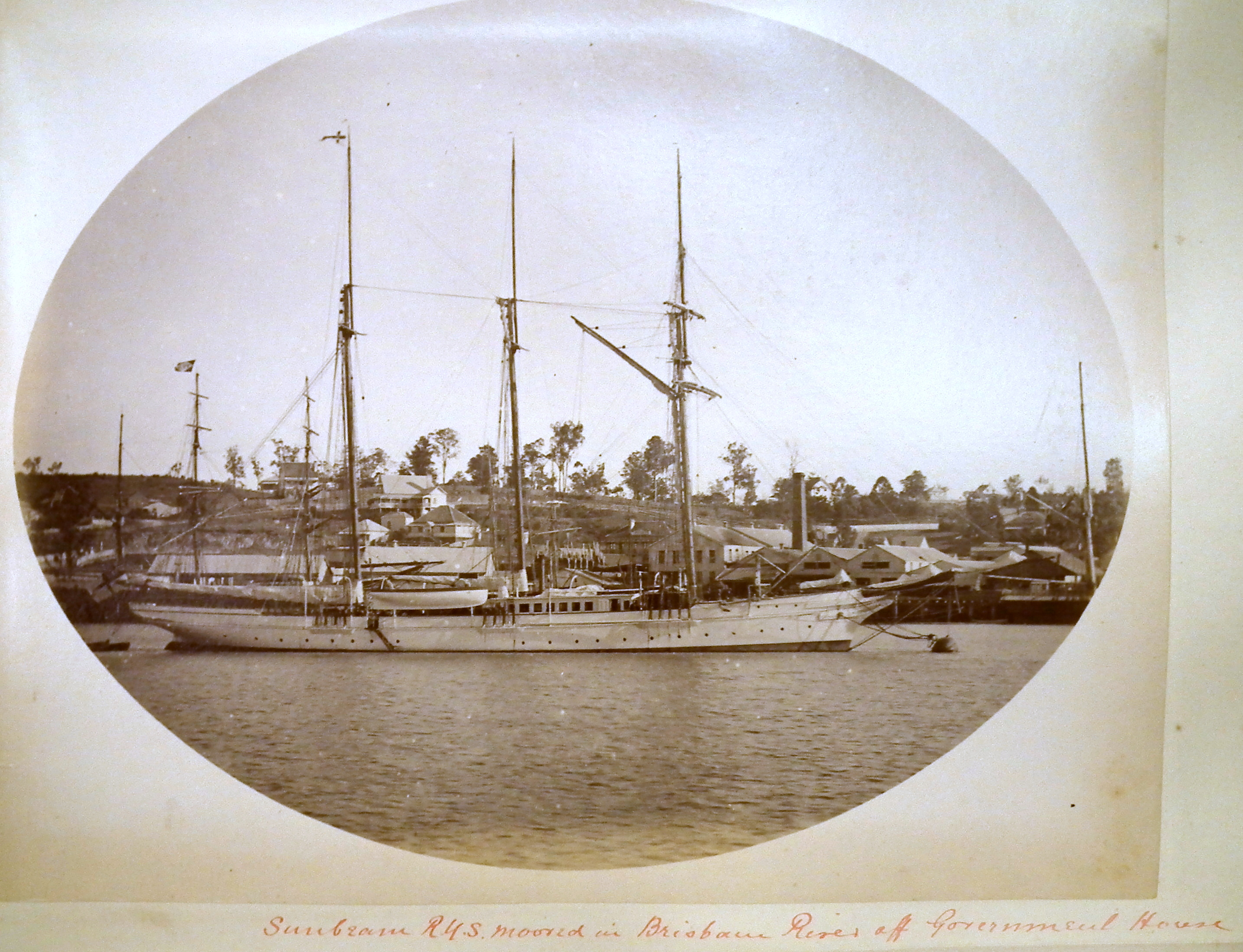 Sunbeam moored Brisbane River off Government House